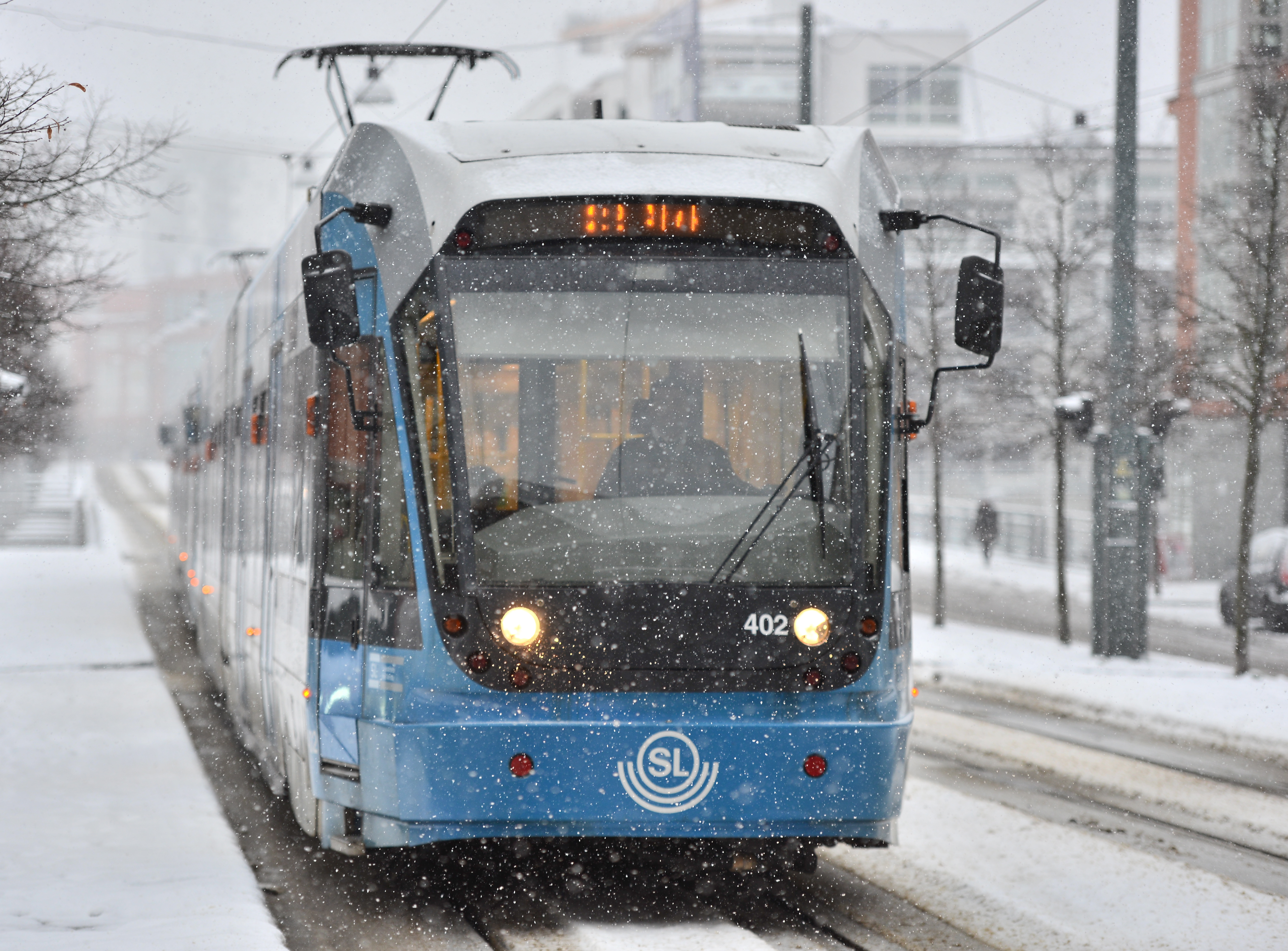 Tram at Sickla kaj, Södra Hammarbyhamnen, Stockholm.